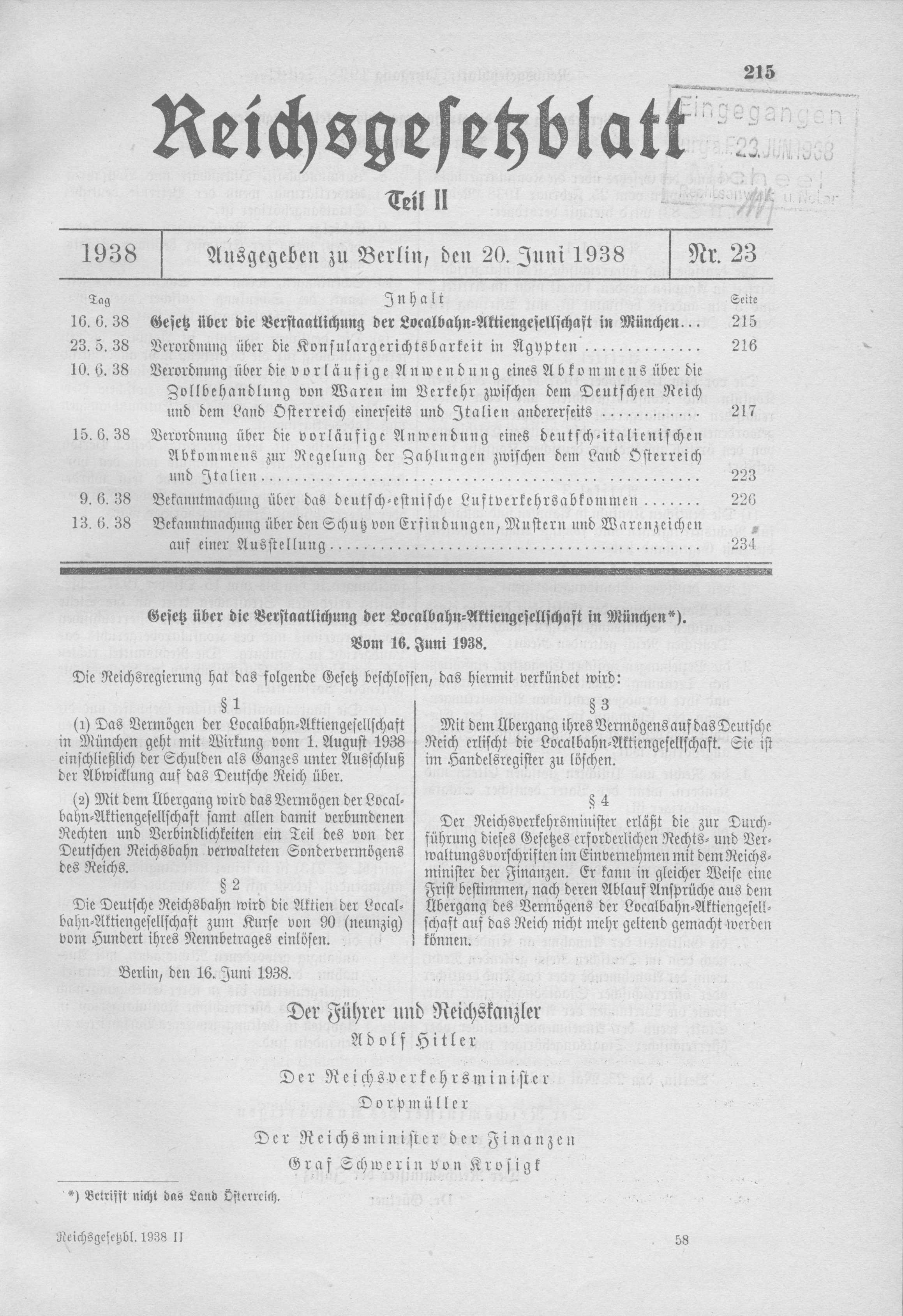 Scan from the Imperial Law Gazette of Germany, 1938, part 2